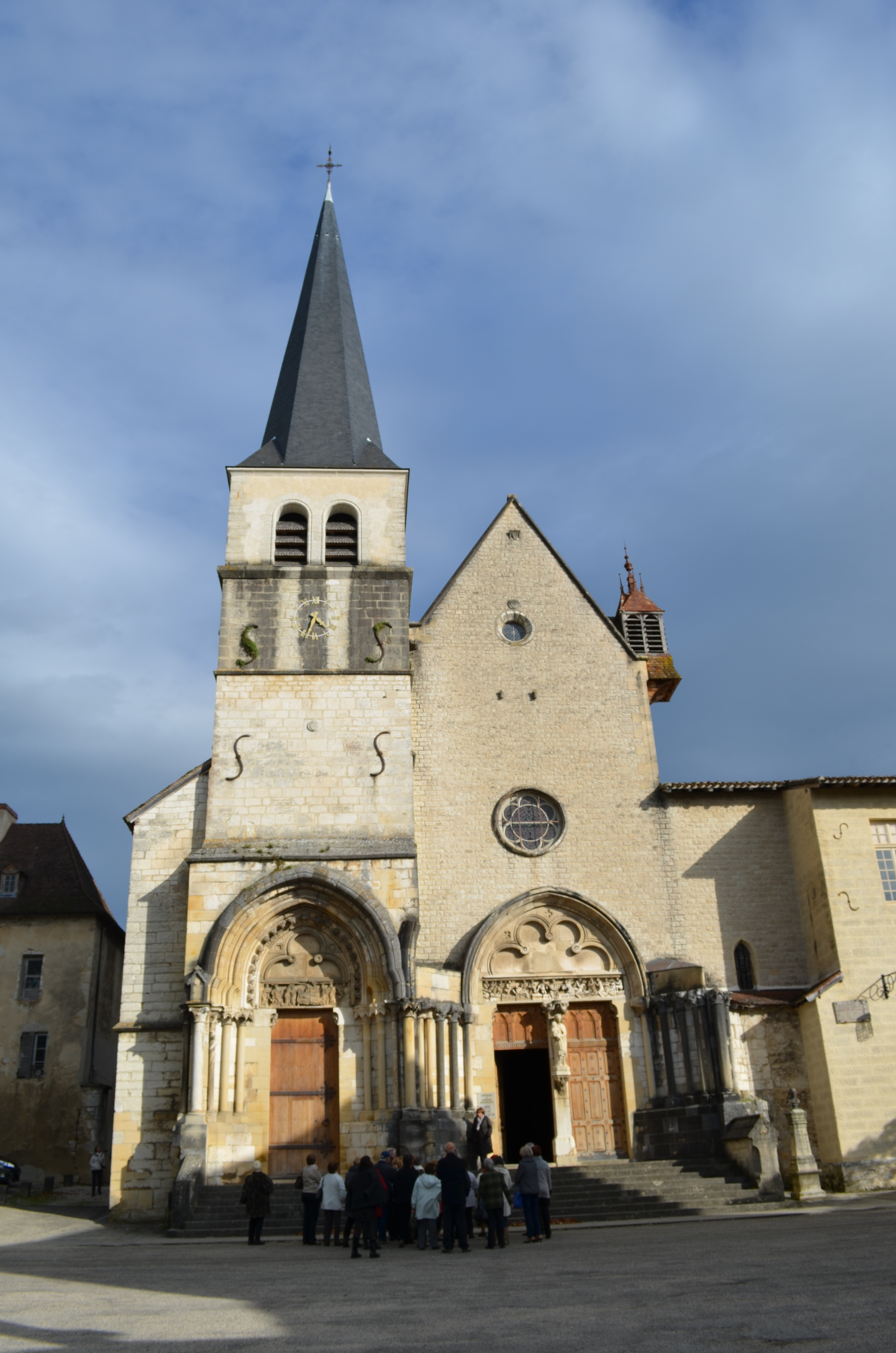 Exterior of abbatiale Notre-Dame d'Ambronay.